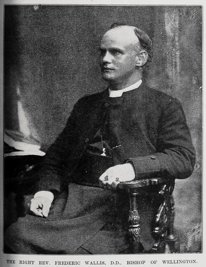 3/4 length portrait of the Right Reverend Frederic Wallis (1854-1928), Bishop of Wellington